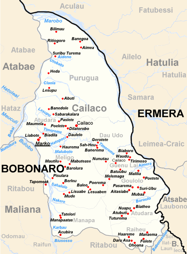 The administrative post of Cailaco, municipality Bobonaro, East Timor